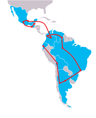 The Amazing Race in Discovery Channel 2's Route map